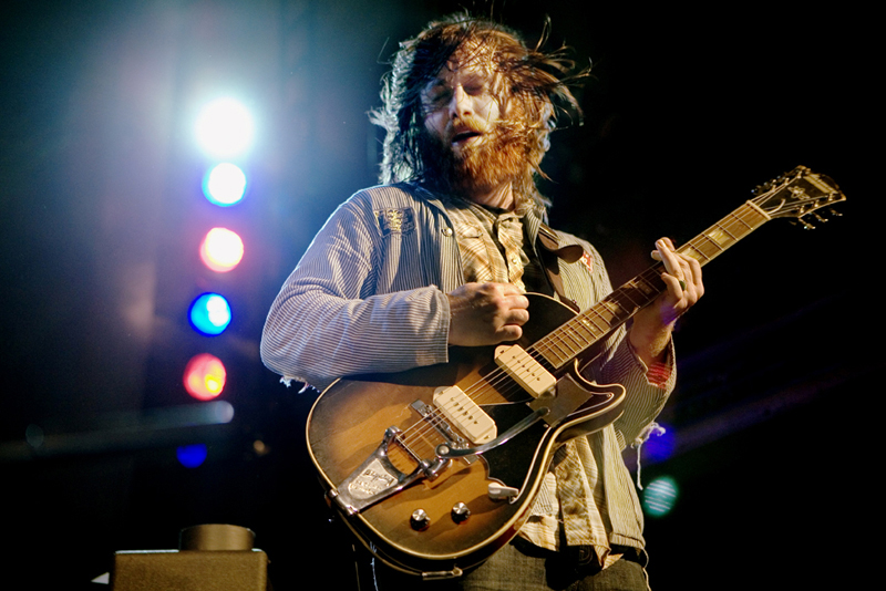 Dan Auerbach, guitarist of the Black Keys plays the Mojo club night at Wilton's Music Hall, East London